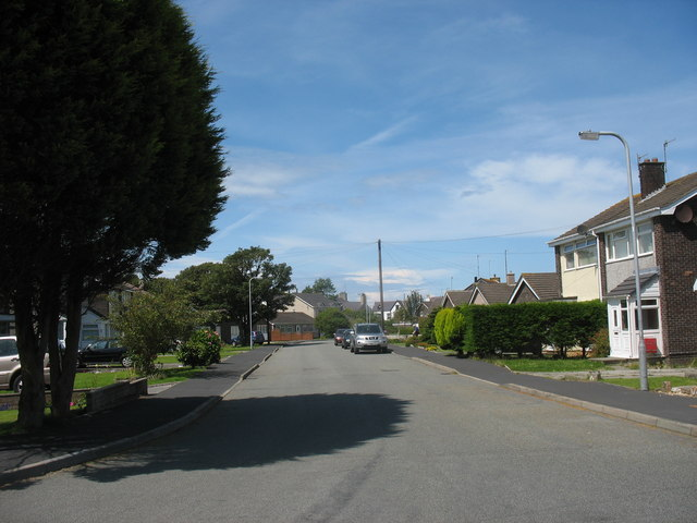 Garreglwyd Park The land in this area used to be owned by the Garreglwyd Estate centred near Llanfaethlu SH3087. It was the Garreglwyd Estate that donated the nearby Public Park to the people of Holyhead.